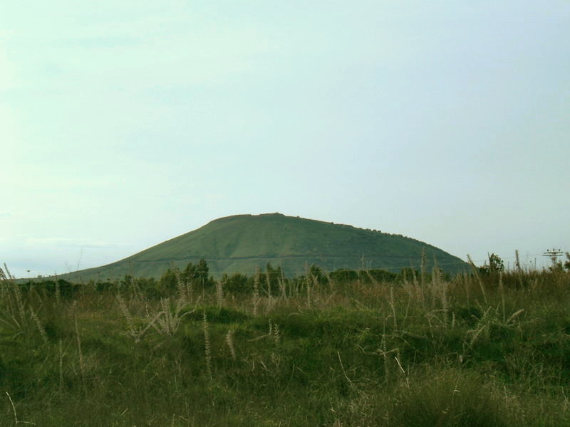 Bental mountain, Golan Heights